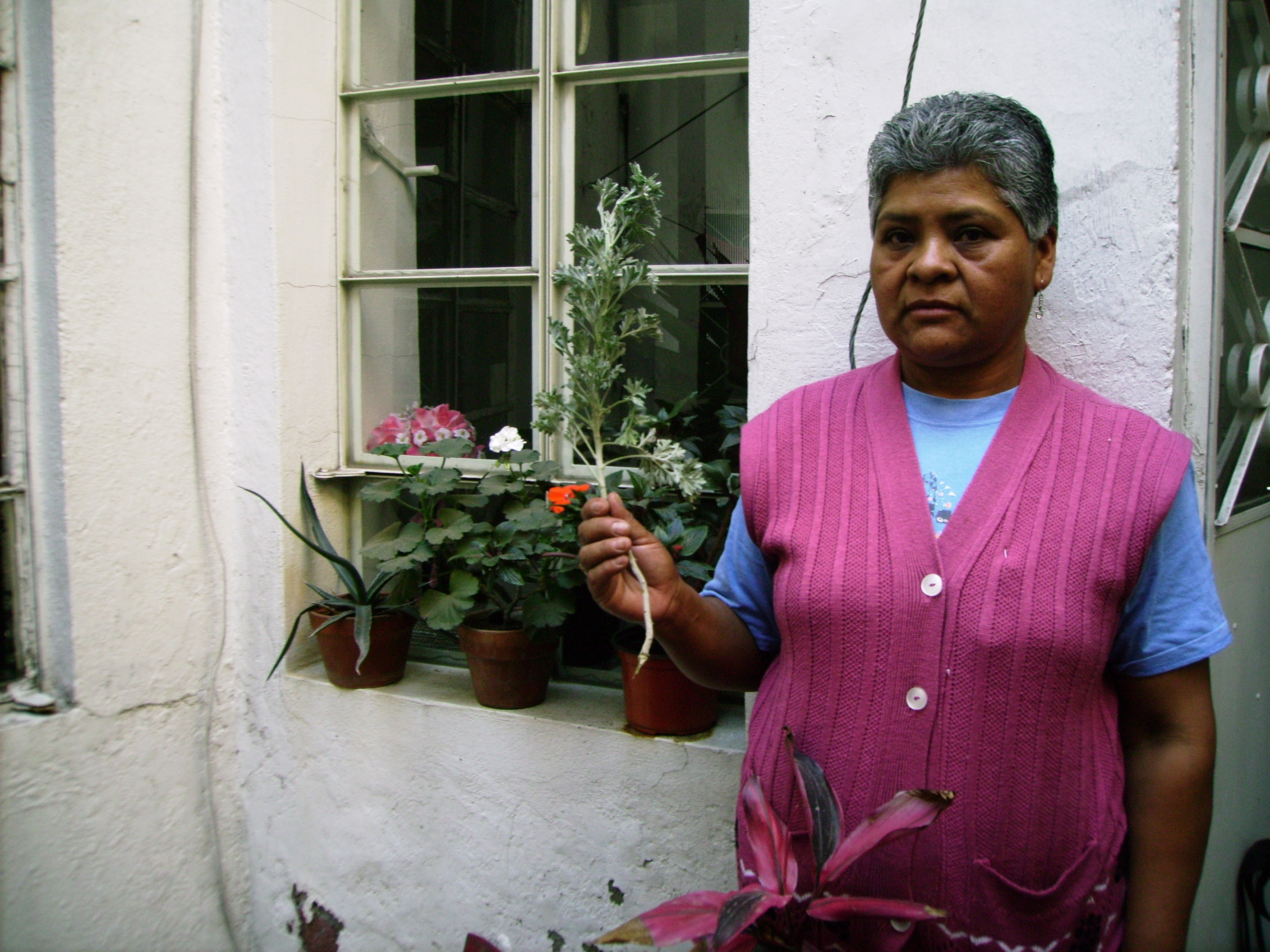 Artemisia absinthium in Mexican herbal medicine